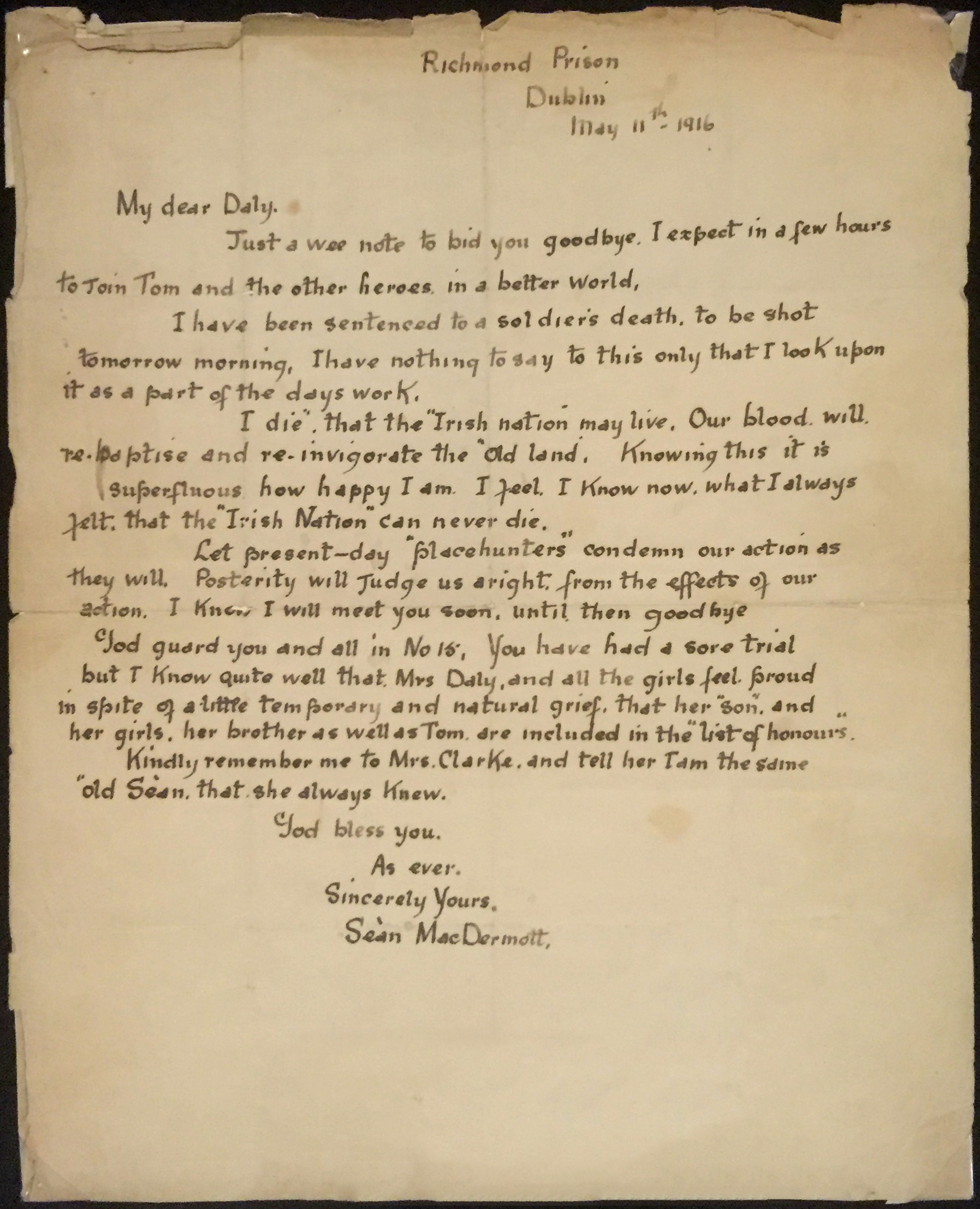 Hand-copied facsimile of a letter written by Seán MacDermott (Seán Mac Diarmada) to John Daly. Numerous hand-written and typed copies of the letter were made and sent around the world to supporters of the Irish republican cause. In this copy, the transcriber has mistakenly written that it was sent from Richmond Prison—MacDermott was in fact in Kilmainham Jail.